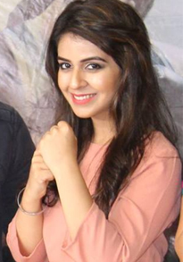 Neha Pawa Indian Actress